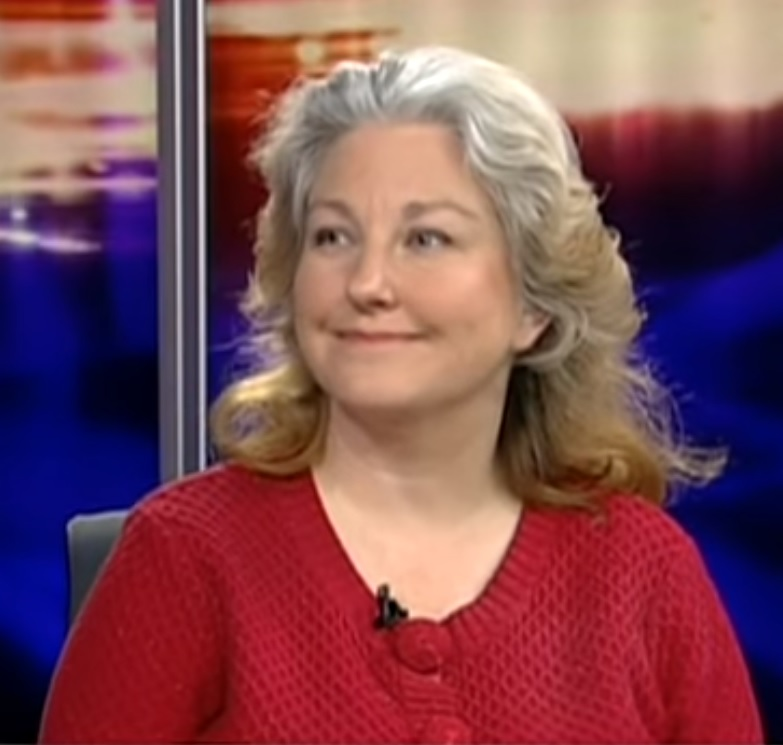 Whistleblowers being demonized in the US? American antiwar activist and former congressional staffer Susan Lindauer interviewed on RT America by Liz Wahl. Under Obama's term as president there has been more people prosecuted for whistle blowing than all other US presidents combined. Bradley Manning, the latest whistle blower, is being held on trial for releasing video exposing a US Apache helicopter shooting and killing civilians and journalists in Baghdad. Some say Manning is a hero, but he is being charged with aiding the enemy. Susan Lindauer, former CIA asset, gives us her taking on whistle blowing. Follow Liz on Twitter at